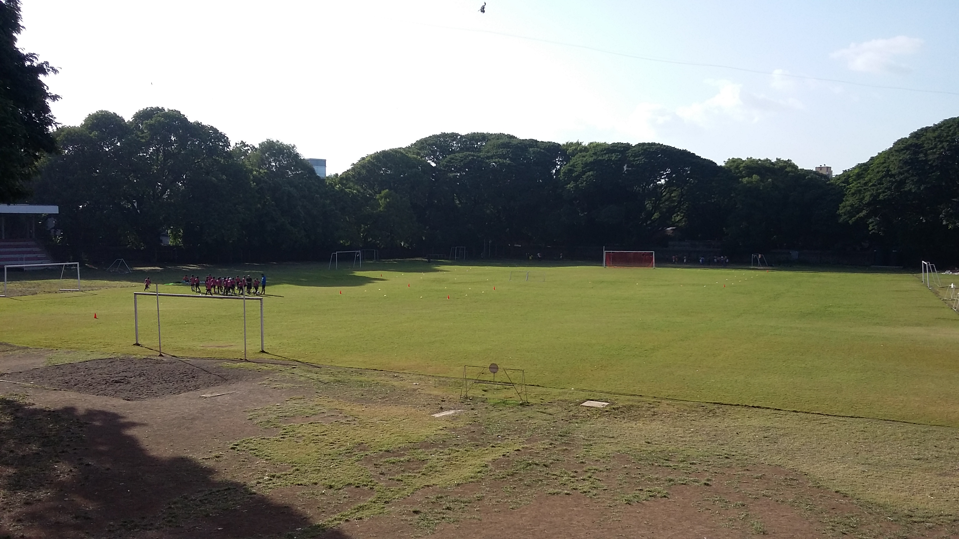 Huge ground at St Vincent's